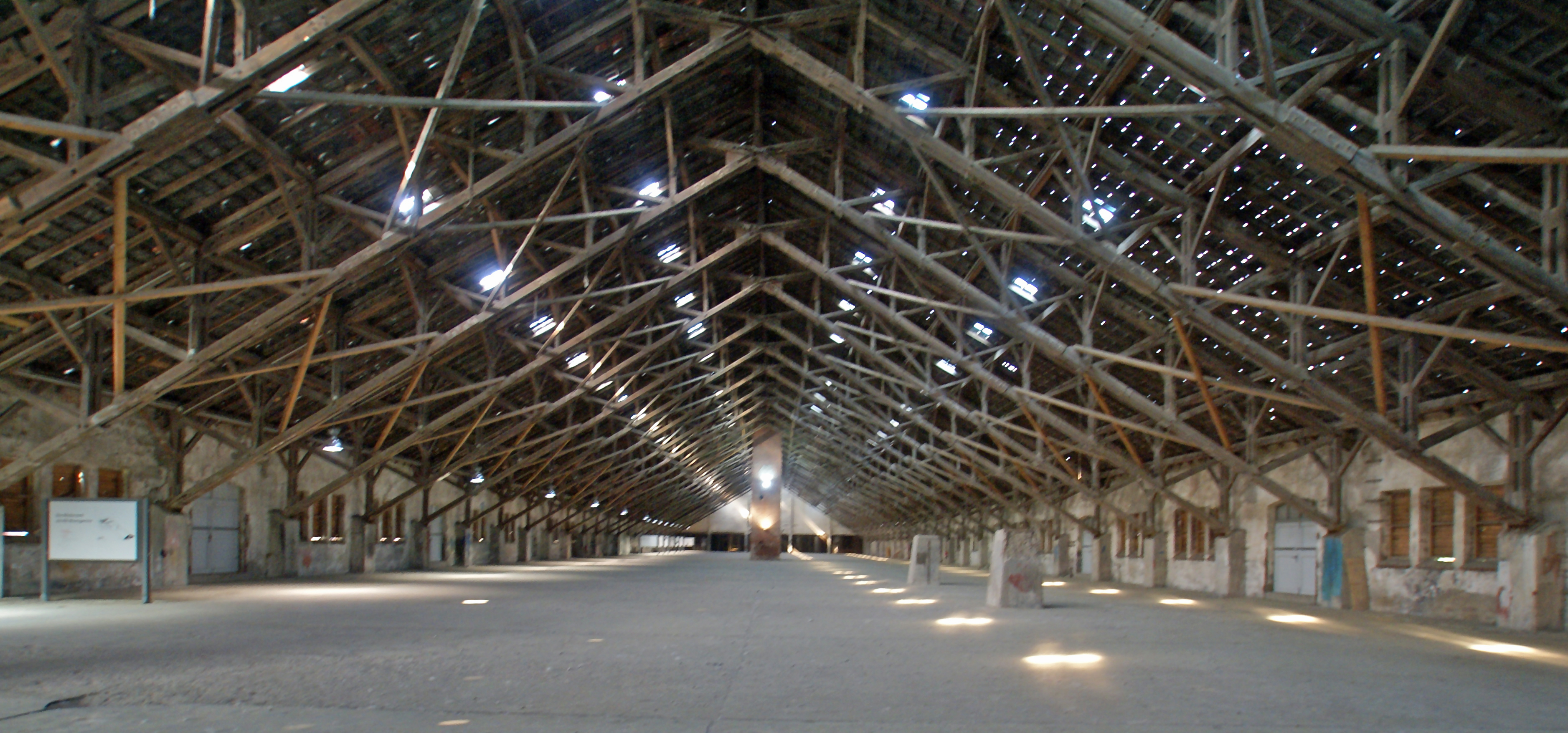 Hamburg (Neuengamme), Germany: Eastern workshop of the brick works of the Neuengamme concentration camp